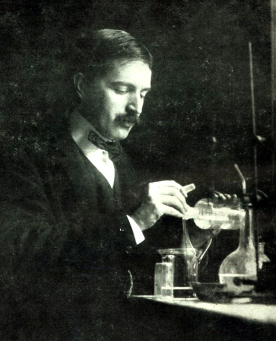 Photograph of Harvard scientist Theodore Richards from about 1905, Harold Hartley, Theodore William Richards Memorial Lecture